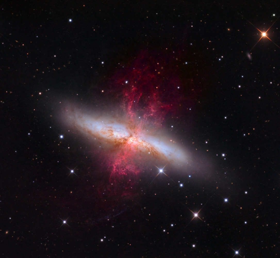 Deep exposures of Galaxies using the 0.8m Schulman Telescope at the Mount Lemmon SkyCenter Credit Line & Copyright Adam Block/Mount Lemmon SkyCenter/University of Arizona